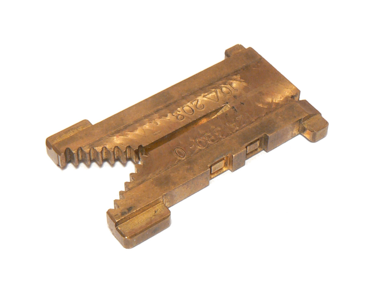 A Linotype matrix for the MICR cheque printing typeface.